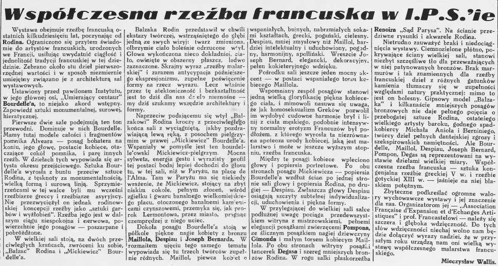 Scan of Polish newspaper from 1935: Wiadomosci Literackie, 1935, no 591, p 8